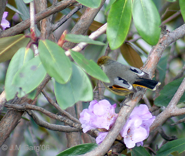 Chestnut-tailed Minla Minla strigula in Kullu District of Himachal Pradesh, India. It summers & breeds above 3300 ft. upto 12000 ft., preferring Broad-leaved forests.